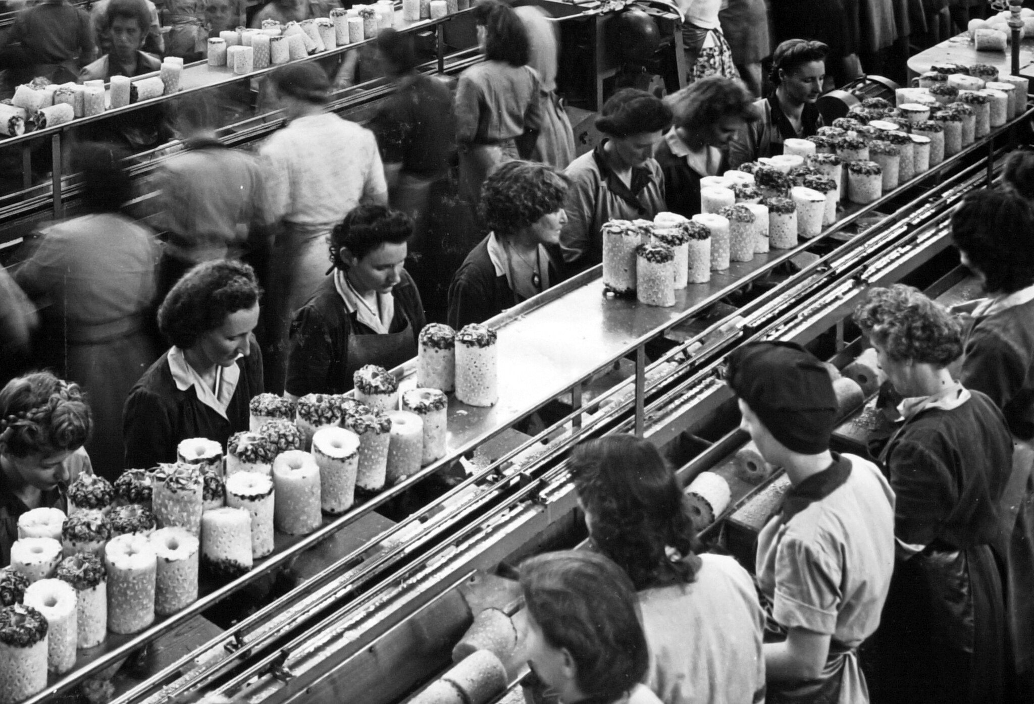 Female workers at the Queensland Tropical Fruit Produce Cannery, Northgate, 6 March 1948. While that was the official name of the business, the brand name for the products was Golden Circle